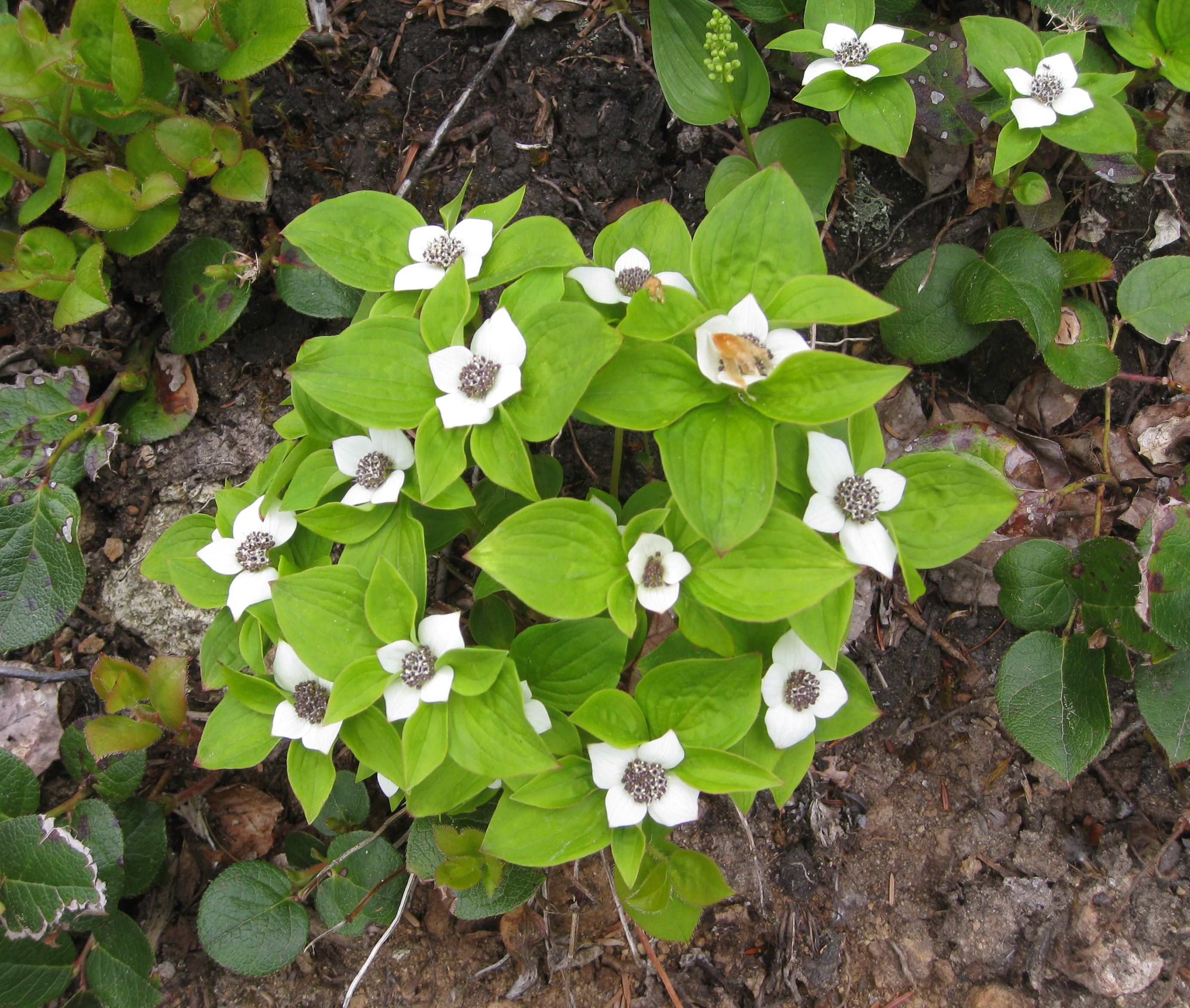 Cornus × unalaschkensis in flower. Rattlesnake Ridge, North Bend, King Co., Washington, 47°27'52"N 121°48'46"W, 950m altitude.